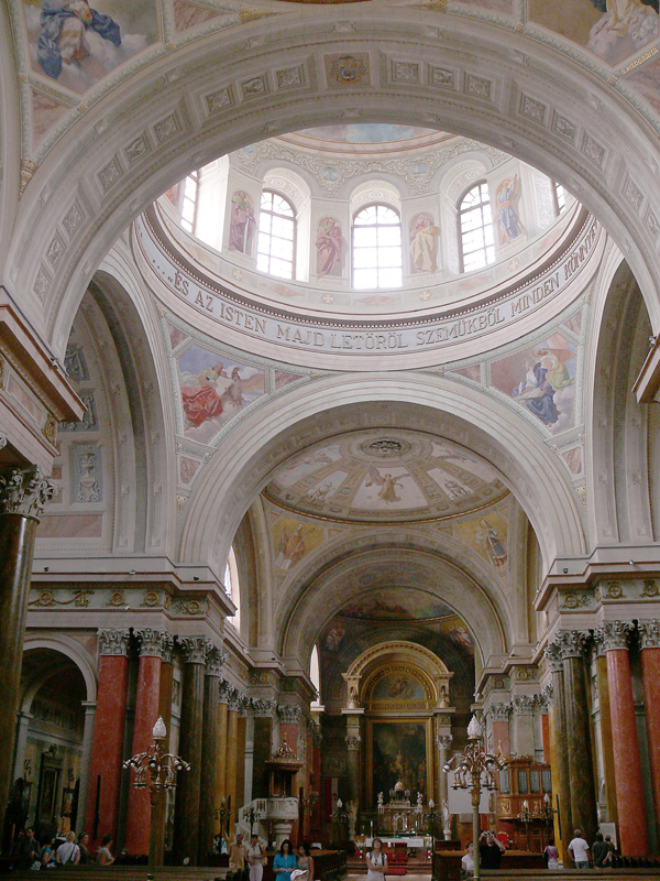 The Basilica of Eger